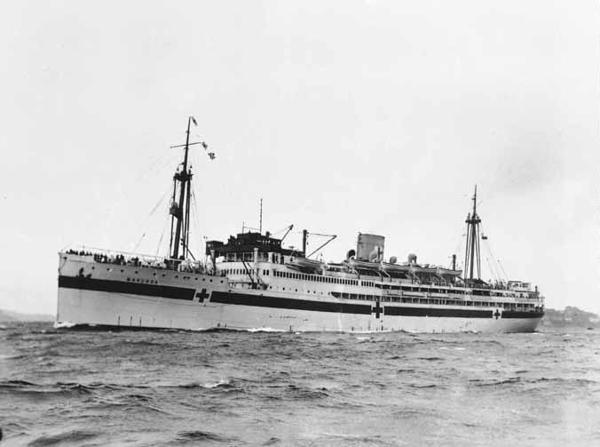 Manunda: This photo is part of the Australian National Maritime Museum’s Samuel J. Hood Studio Collection. Sam Hood (1870-1956) was a Sydney photographer with a passion for ships. His 72-year career spanned the romantic age of sail and two world wars. The photos in the collection were taken mainly in Sydney and Newcastle during the first half of the 20th century. The ANMM undertakes research and accepts public comments that enhance the information we hold about images in our collection. This record has been updated accordingly. Photographer: Samuel J. Hood Studio Collection Object no. 00022459